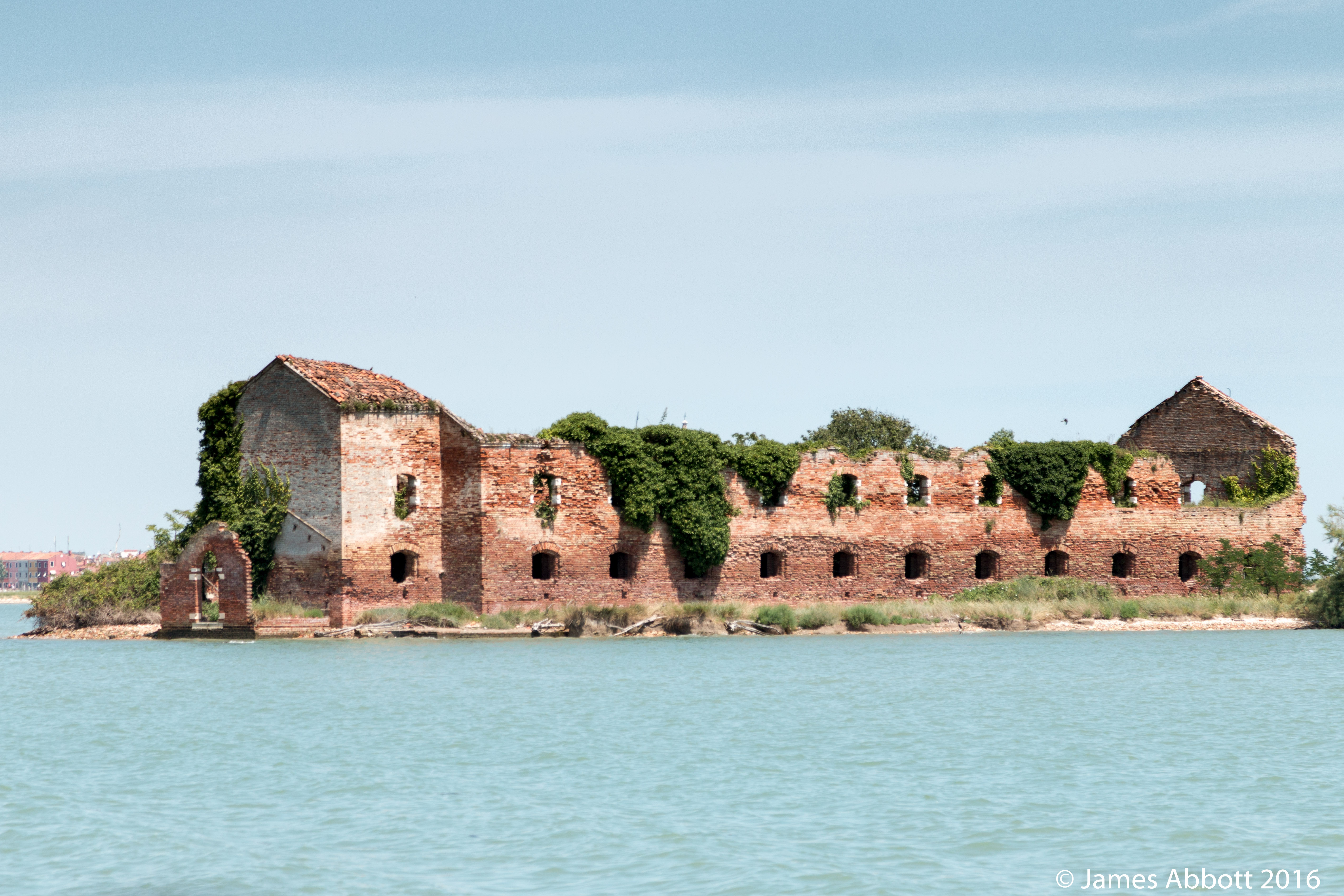 Ruins viewed from the Ferry on the way to Burano from Murano, Venice. Madonna Del Monte